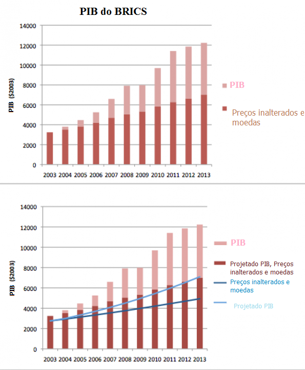 GDP of the Brics for 2013 (in portuguese